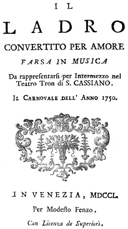 Giovanni Battista Pergolesi - La contadina astuta - Il ladro convertito per amore - titlepage of the libretto - Venice 1750